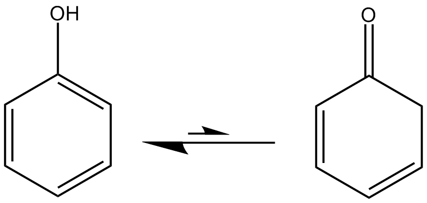 Tautomers of phenol